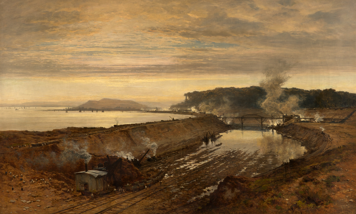 The Excavation of the Manchester Ship Canal: Eastham Cutting with Mount Manisty in the distance: A painting by Benjamin Williams Leader in 1891 of the Manchester Ship Canal being built. The painting focuses on the building of Eastham Docks (see this link for more information.